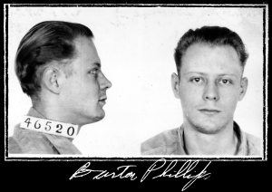 Mugshot of Burton Phillips, U.S. criminal convicted for life imprisonment for bank robbery. He was sent to Leavenworth, Kansas, then Alcatraz, both federal penitentaries.